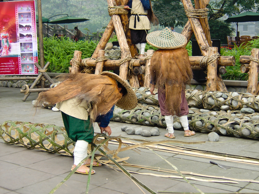 都江堰，演示制作杩槎与竹笼。 I like how this photo kinda looks like it's just a diorama or natural history museum display or something.